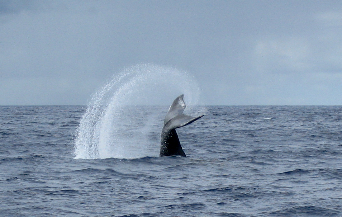 Humpback whale flipping tail off coast of Moloka'i, Hawai'i.